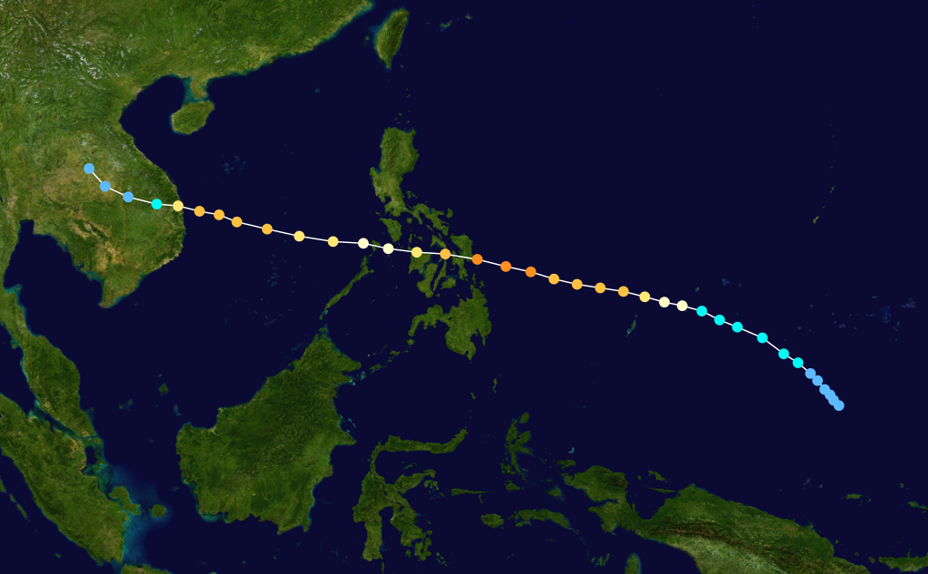 Typhoon Agnes 1984 track. Uses the color scheme from the Saffir-Simpson Hurricane Scale.